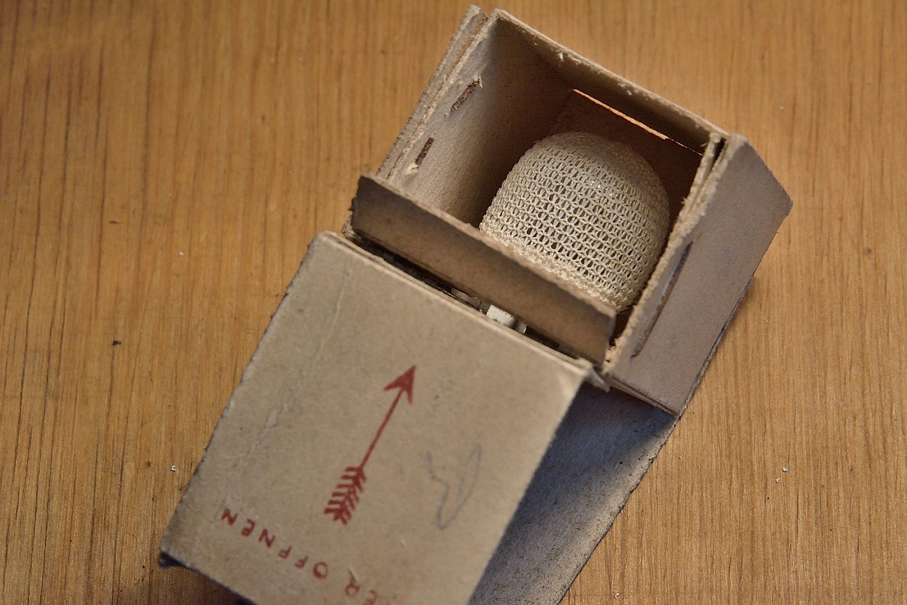 A gas mantle produced in Neutomischel (Nowy Tomyśl) in Warthegau on occupied Polish teriitory during WWII.